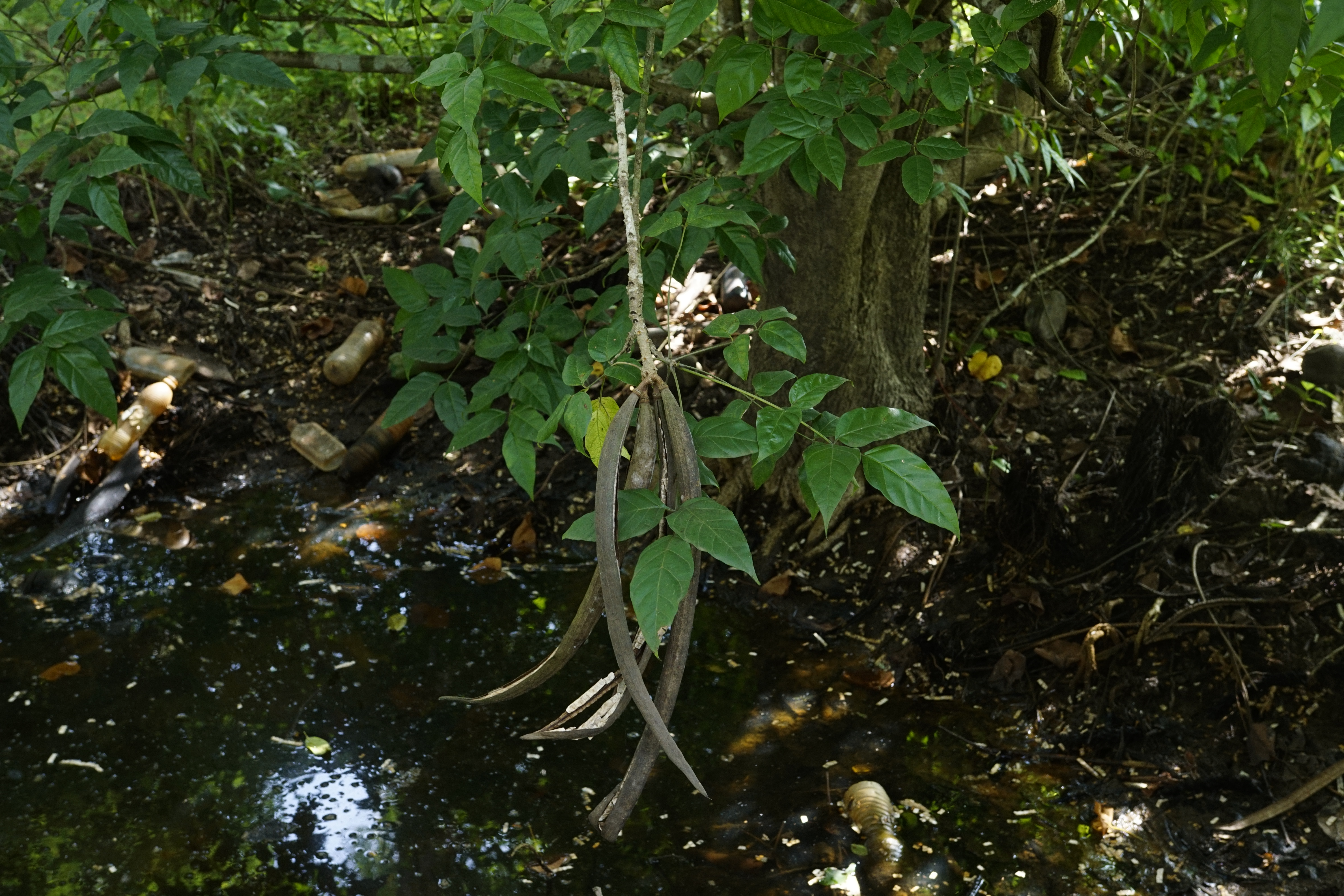 Chemanchery